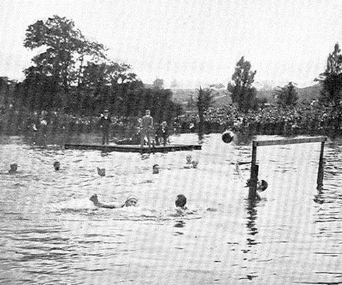 Water Polo at Paris (Olympic Games) in 1900 photography, reproduction, no restrictions on use